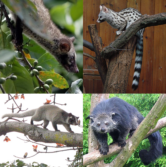 A mosaic of examples of Viverridae species: 1 2 3 4 1: Paradoxurus hermaphroditus philippinensis (Jourdan, 1837)